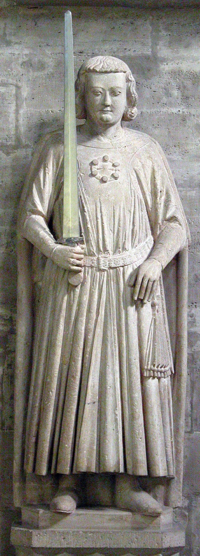 Brunswick, Germany: Statue of founder Henry the Lion in Braunschweig Cathedral.